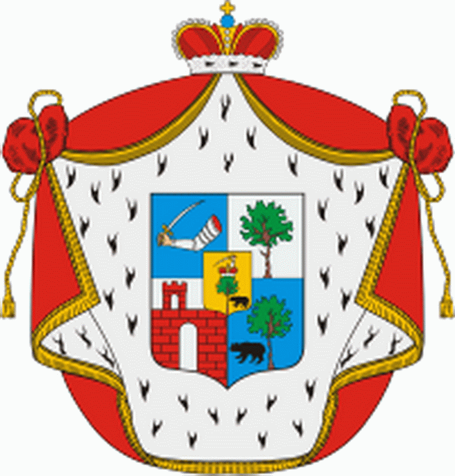 Coat of Arms of Gagarin family